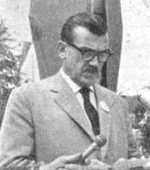 Peter Stante-Skala (1914-1980), Slovene partisan and general